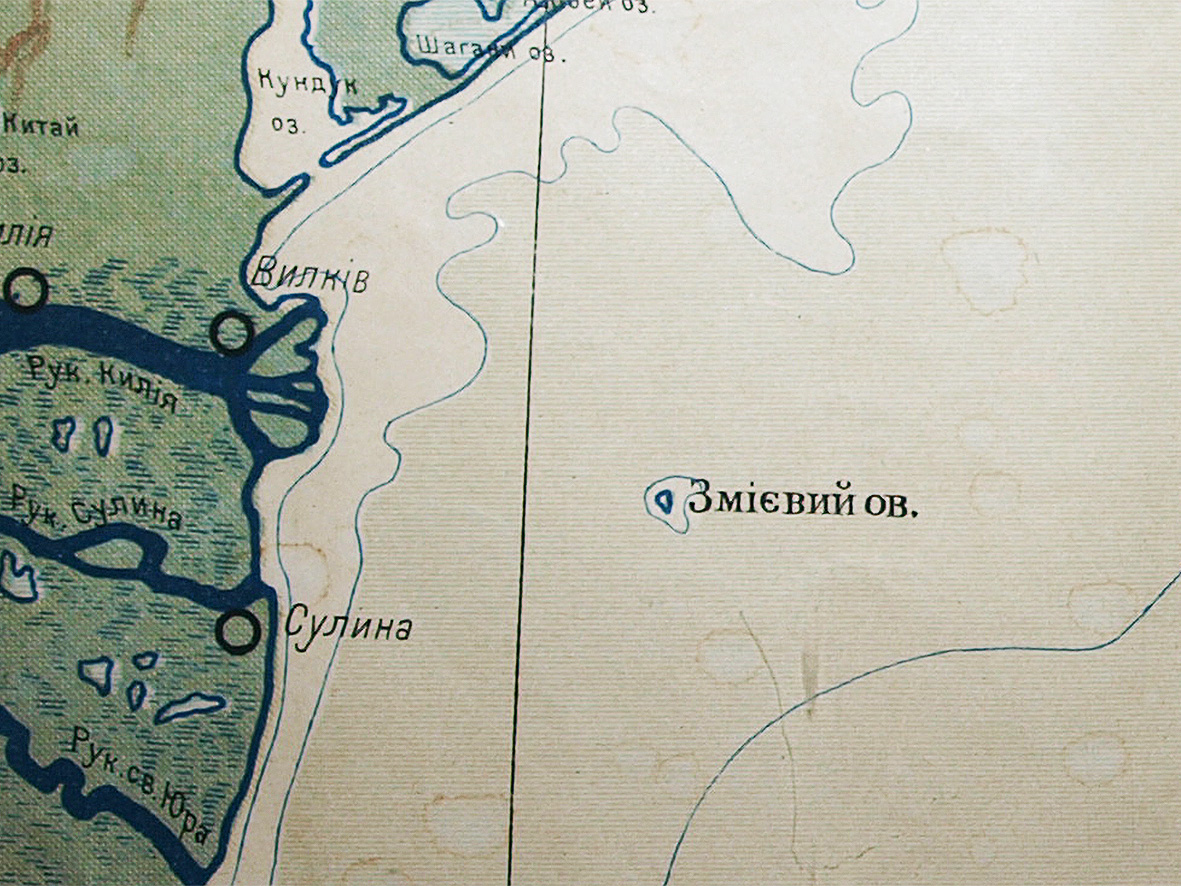 Map 1918. Snake Island (Black Sea)